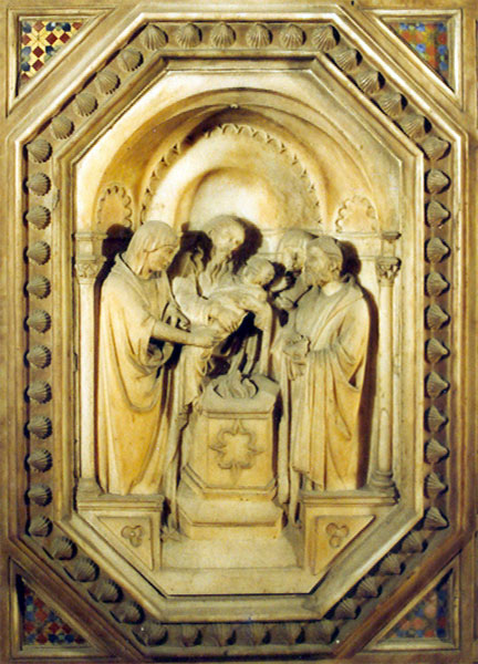 Andrea Orcagna’s tabernacle. Orsanmichele. Florence